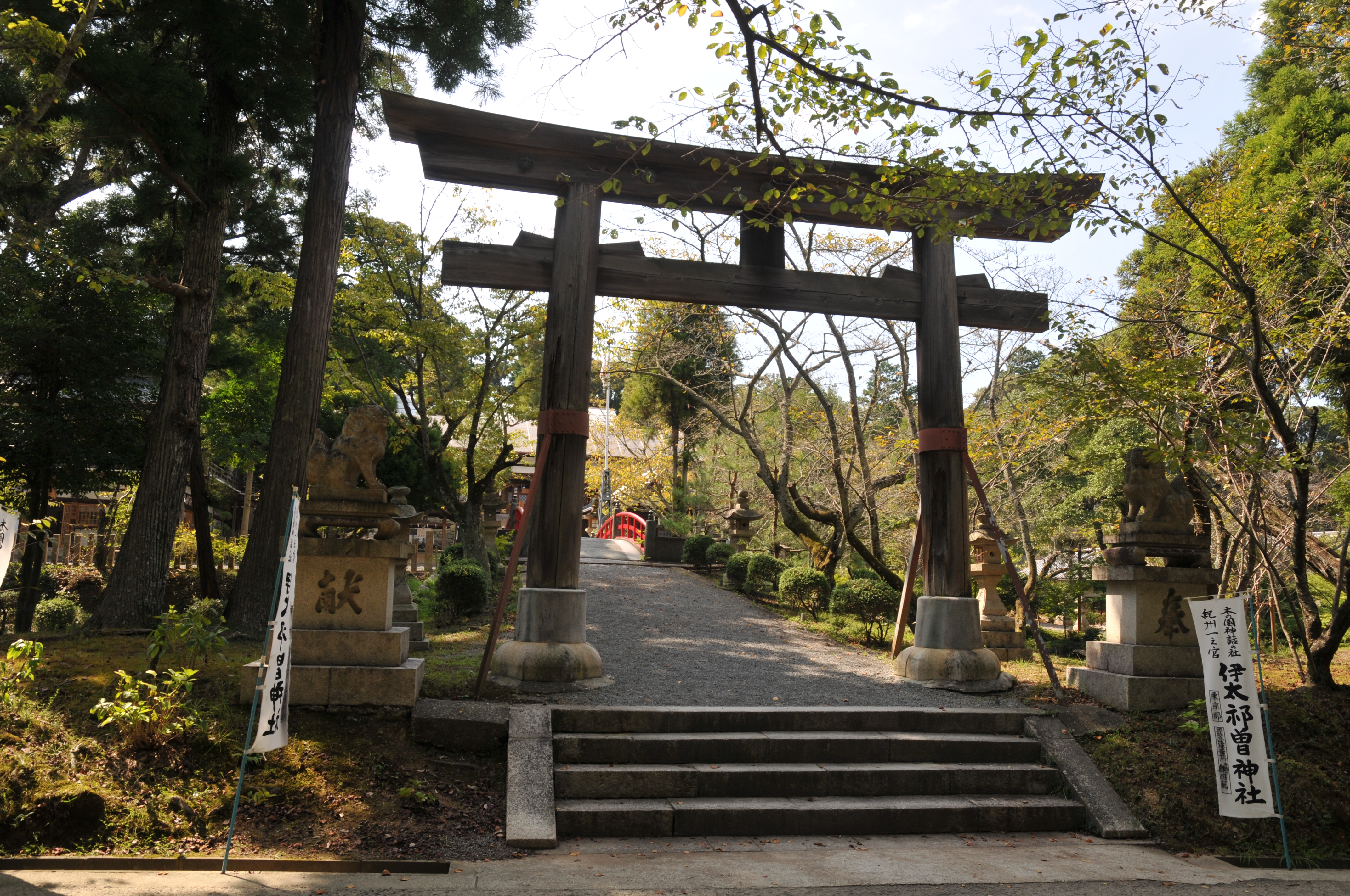 Second torii, Itakiso-jinja